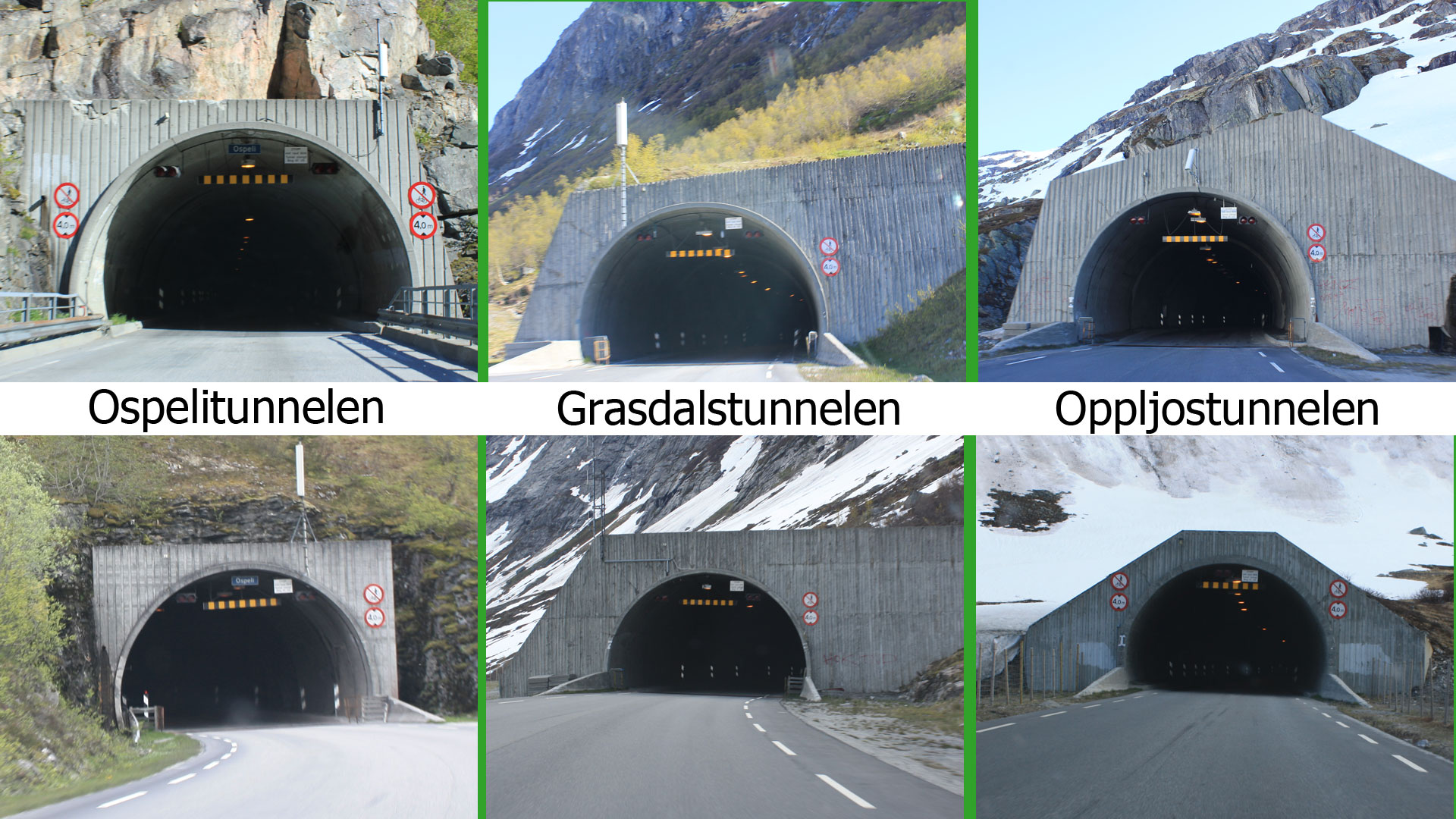 Made a collage with the tunnel openings of all 3 tunnels in photoshop